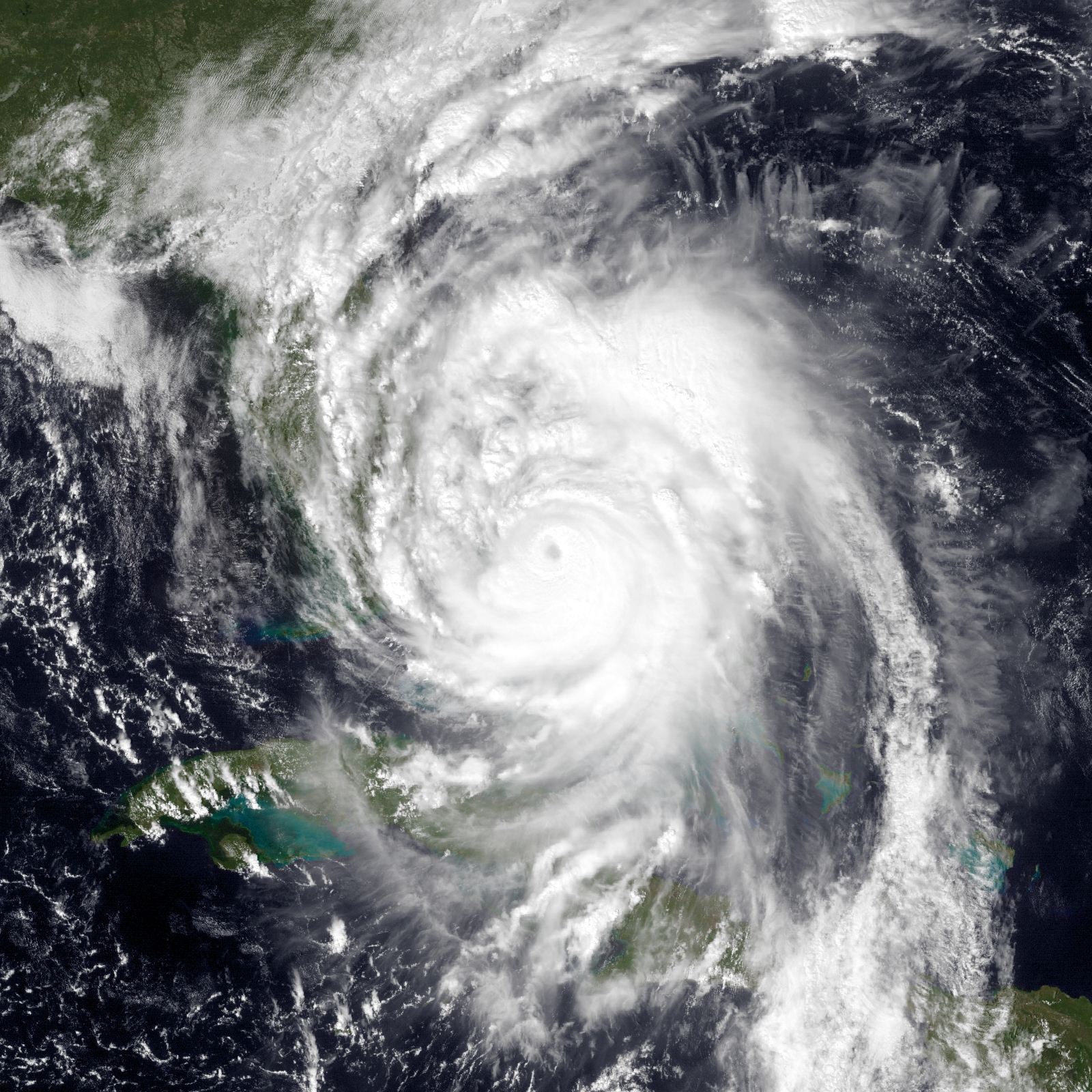 Geostationary imagery of Hurricane Matthew (14L) (2016)